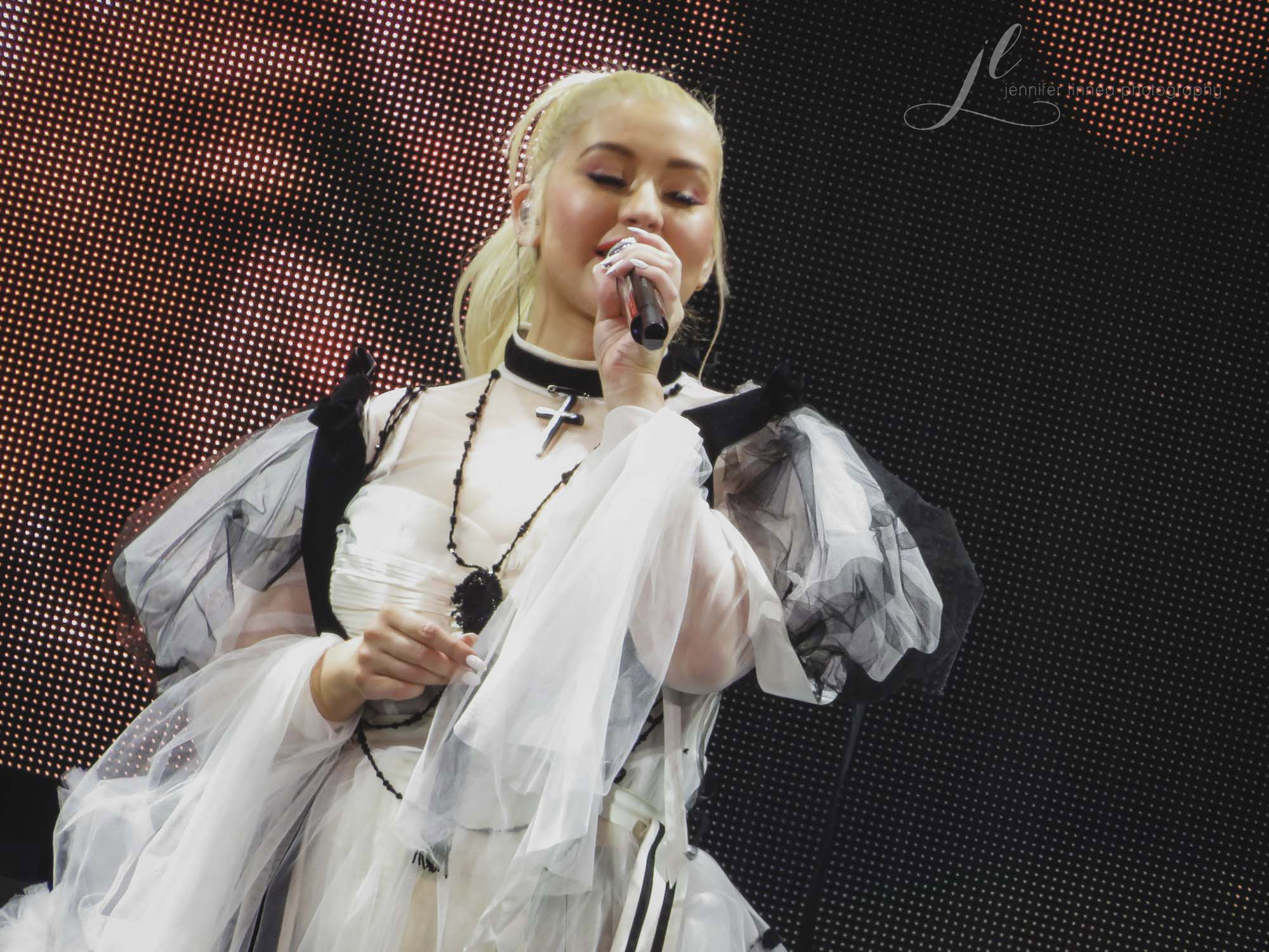 Christina Aguilera performing at the Pepsi Center on October 19, 2018 on her Liberation Tour.